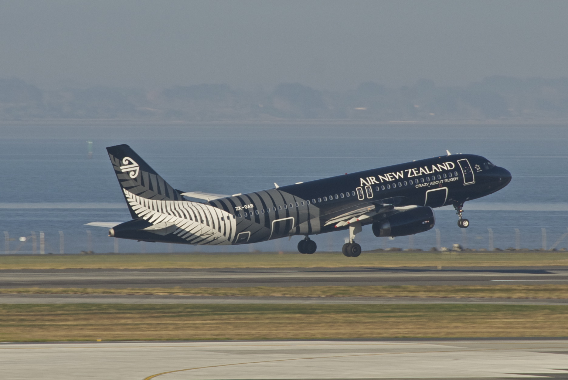 All Blacks A320 taking off from Auckland...